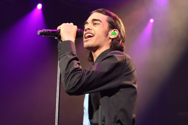 American Idol contestant Sanjaya Malakar performing live during the American Idols LIVE! Tour 2007.